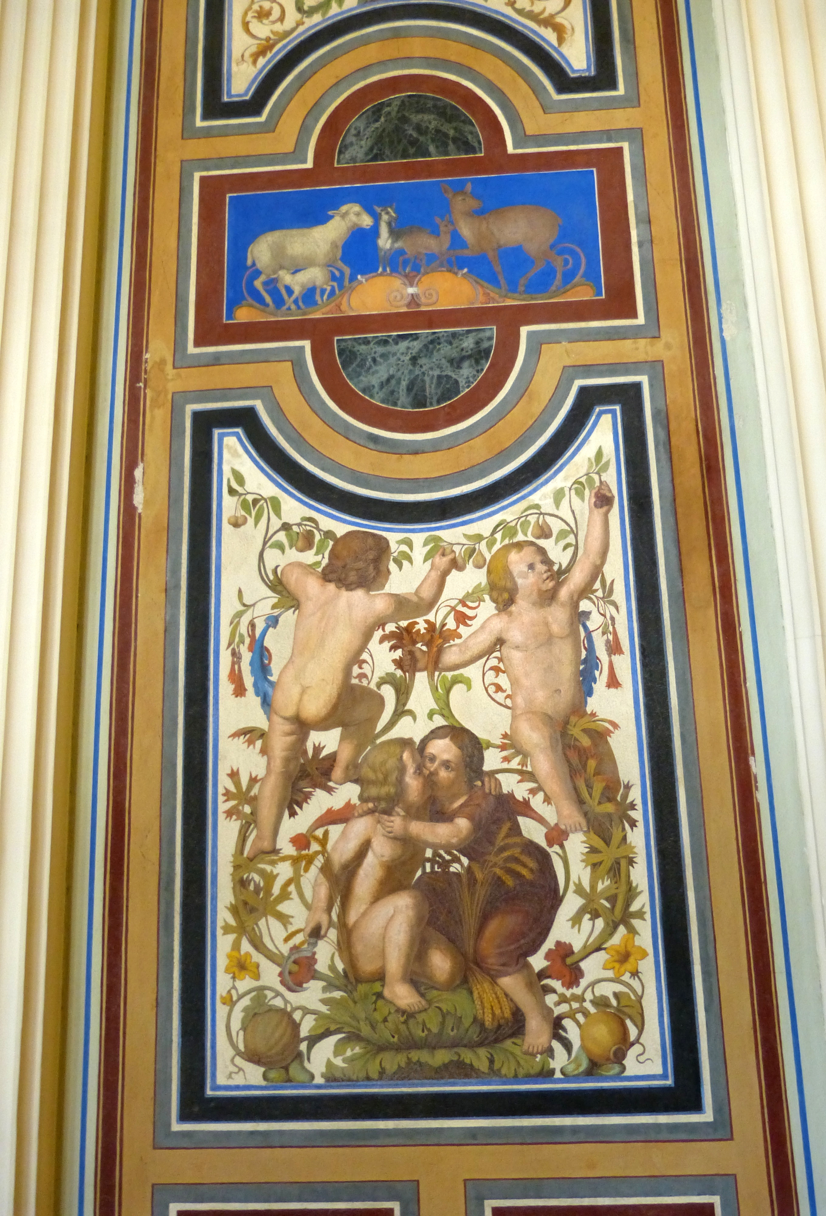 Schwerin Castle ( Mecklenburg ). Sylvester gallery: Stereochrome painting of putti as allegory of seasons, by C.G.C.Schuhmacher.